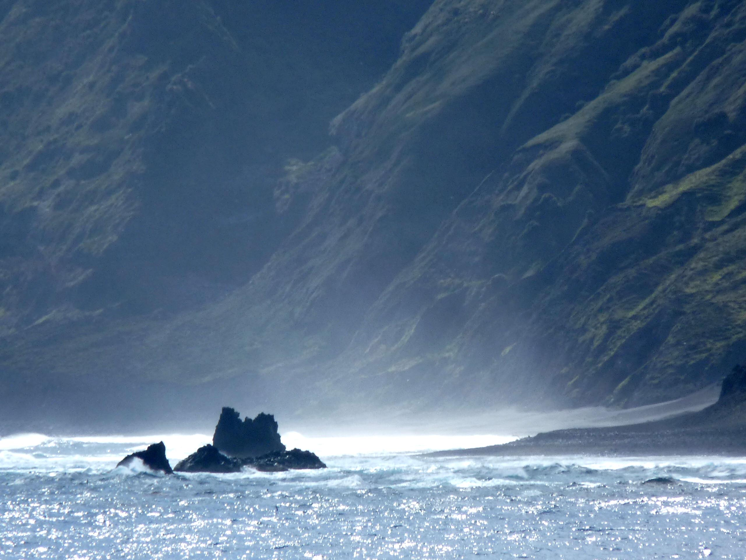 Tristan W coast